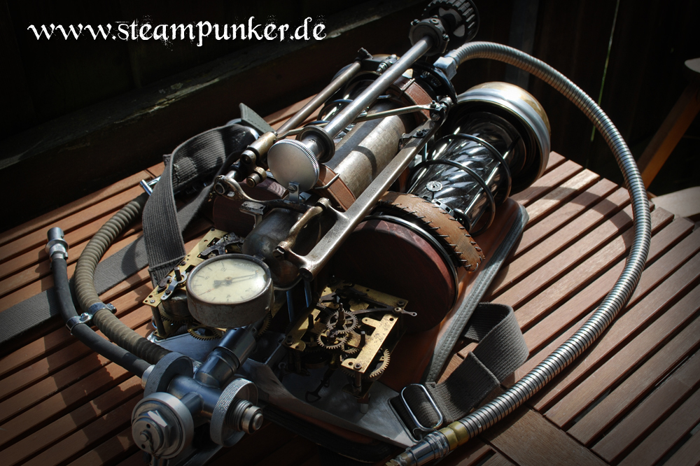 part from an steampunk outfit